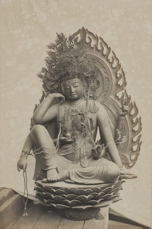 Nyoirin Kannon, Mii-dera, Otsu, Shiga, Japan